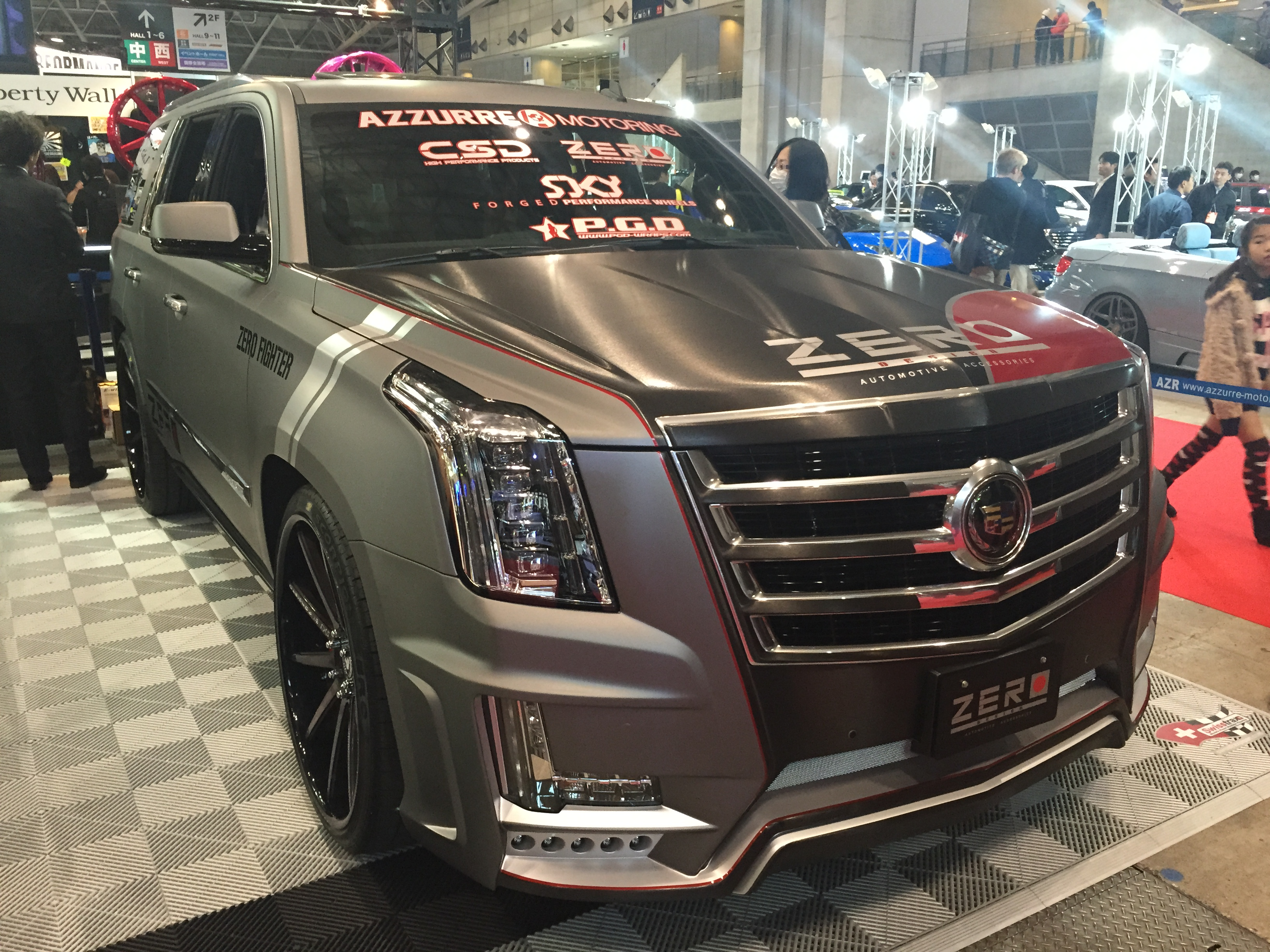 ZERO DESIGN Cadillac Escalade photographed at the Tokyo Auto Salon 2015.